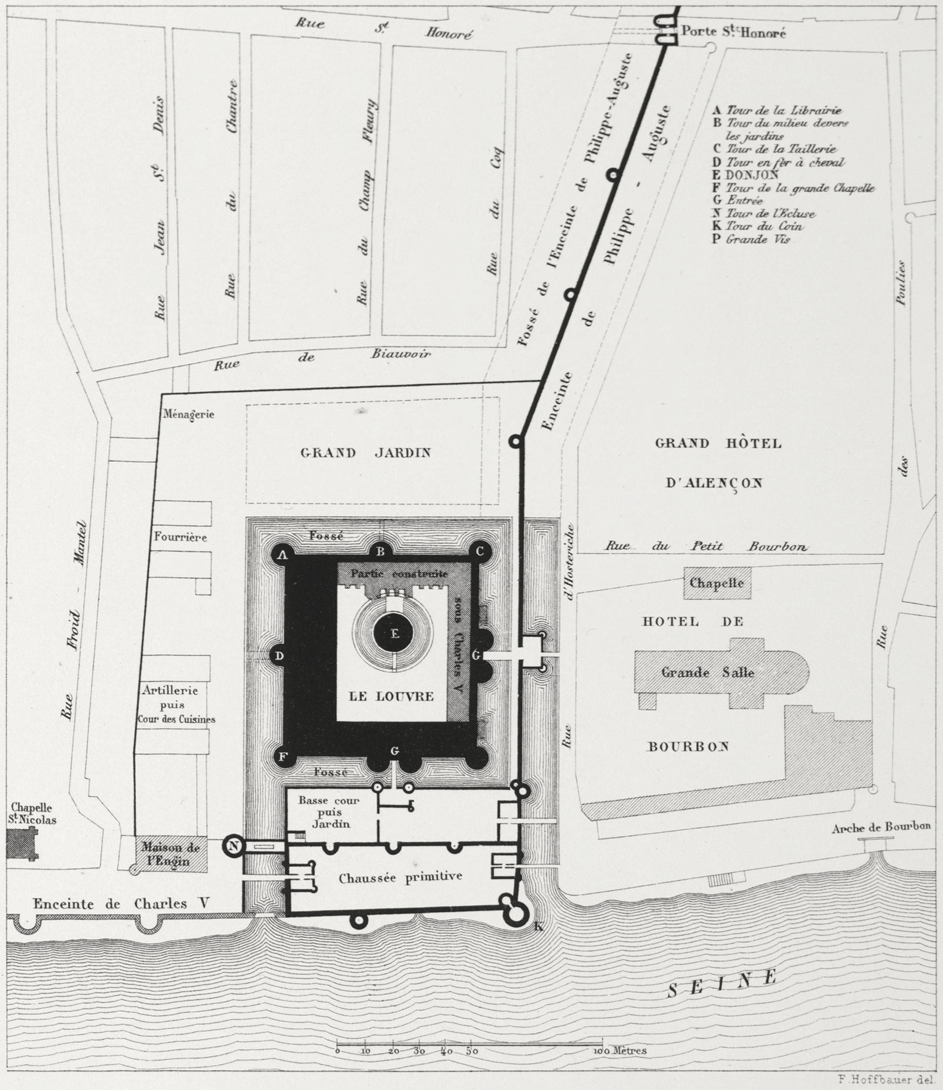 Maps of the Louvre neighborhood. On the left, a map showing 1595. On the right, a map showing 1380. The overlay shows the same area in 1876.